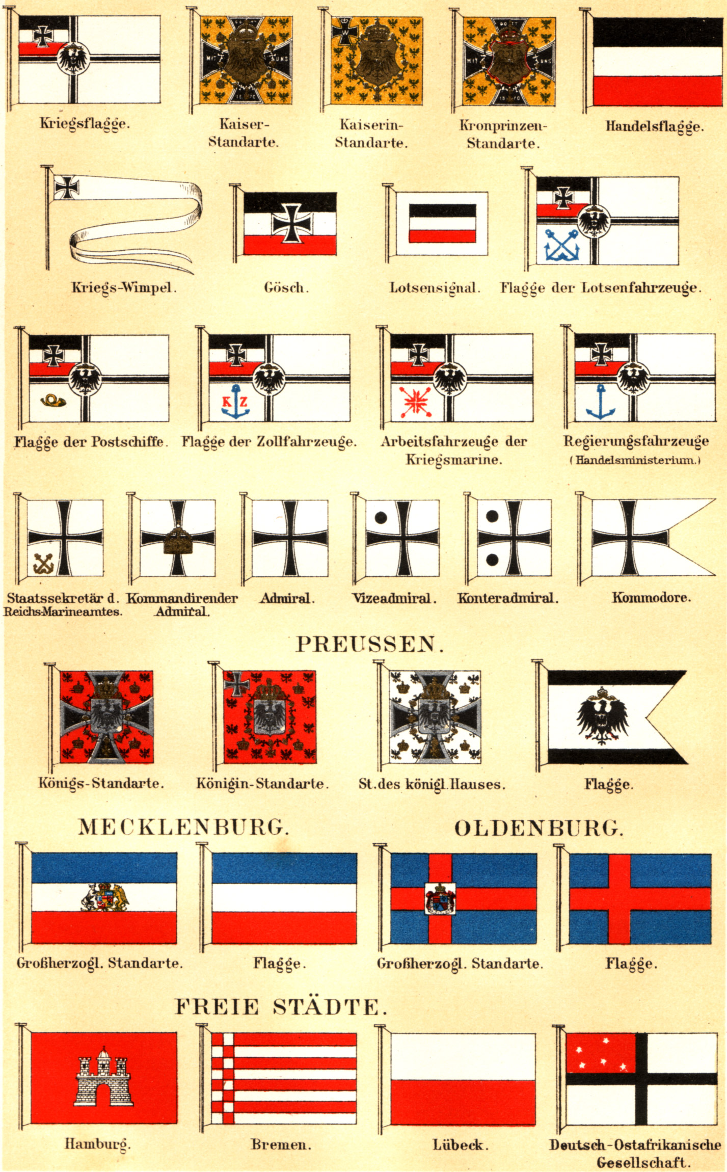 Selected naval flags of the German Empire and his Coaststates (Prussia, Mecklenburg, Oldenburg, Hamburg, Bremen and Lübeck) and of the Deutsch-Ostafrikanische Gesellschaft.